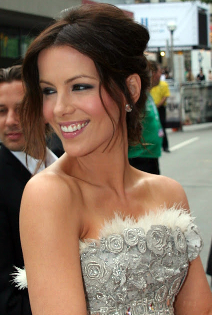 Kate Beckinsale in 2007.